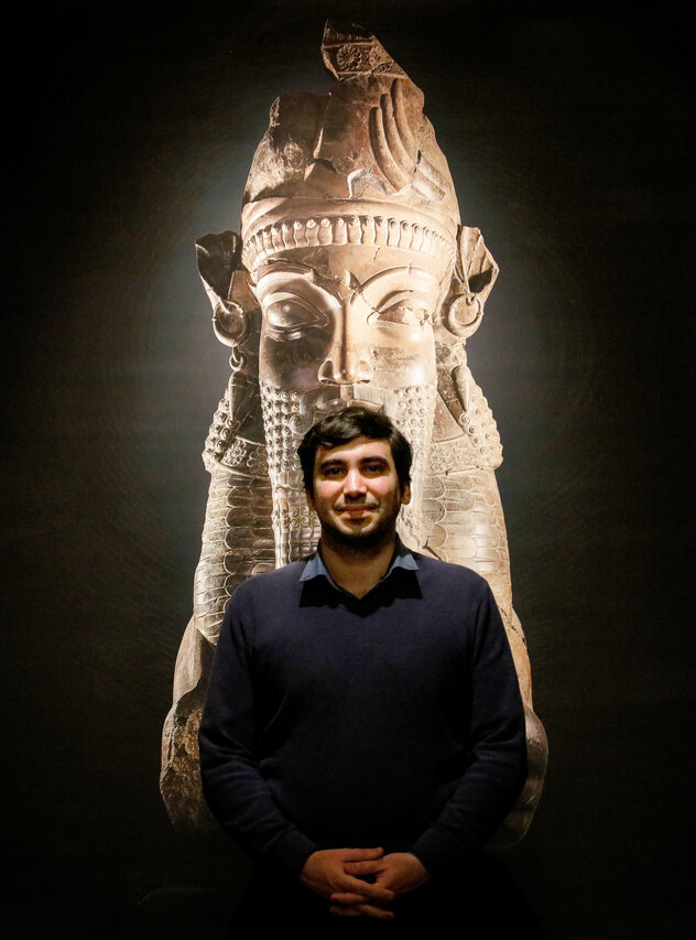 Avi Bachenheimer, at the National Museum of Iran 2019